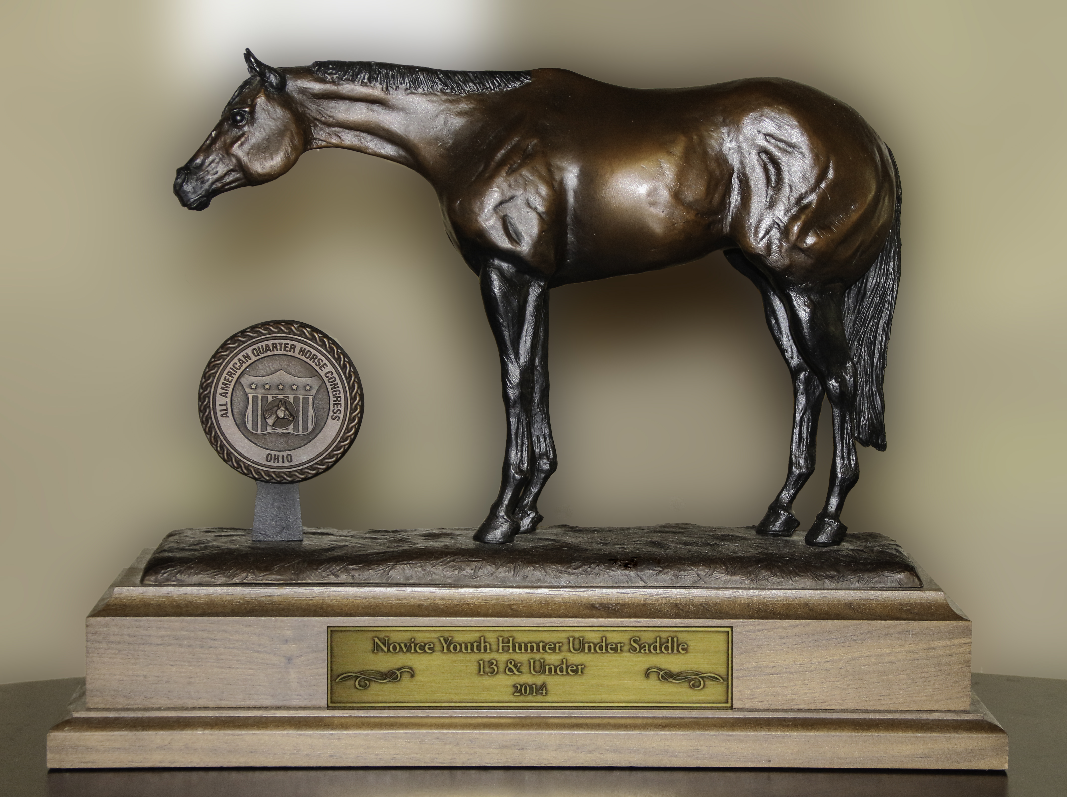 An All American Quarter Horse Congress Trophy is awarded to the winners in each class in their respective divisions.